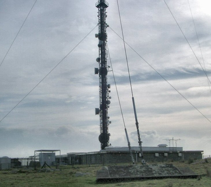 Photograph of Caradon Hill, 6km north of Liskeard, Cornwall, UK, showing closeup of main transmitter mast and base station.